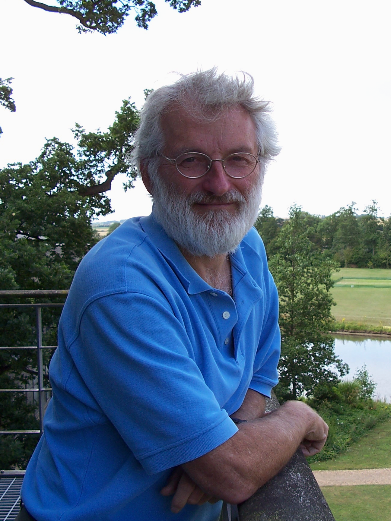 Photo of a British biologist John Sulston.